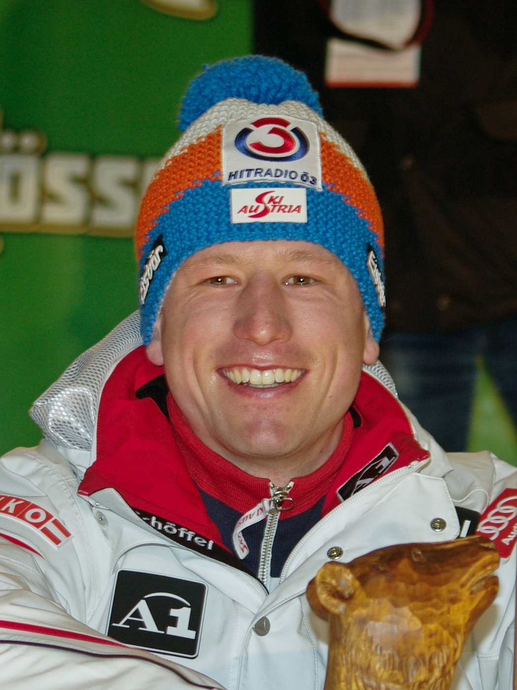 Austrian alpine skier Hannes Reichelt at the prize giving ceremony for the Super-G in Hinterstoder (Austria) on 5 February 2011.